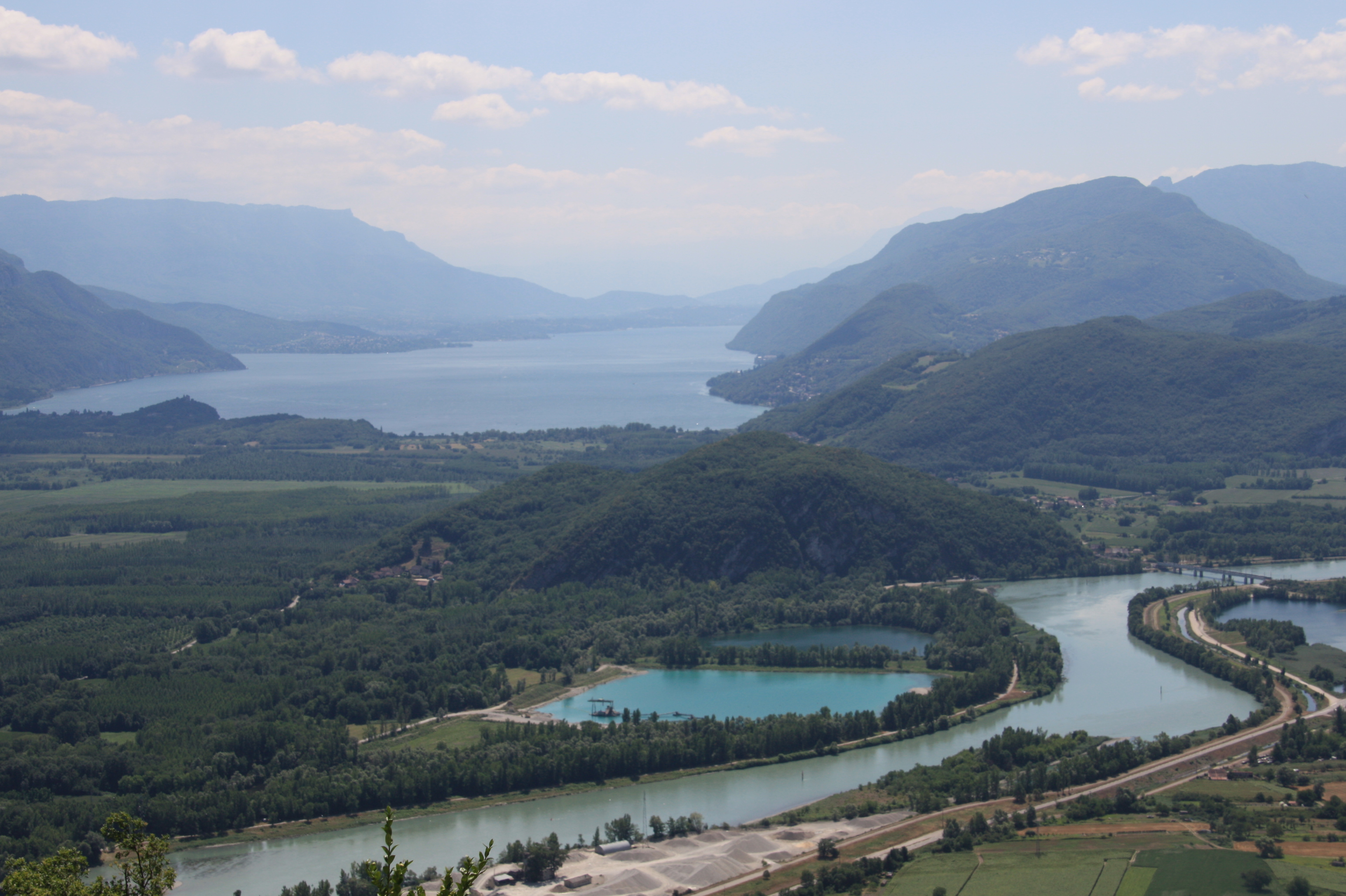 Bourget Lake from the Grand Colombier Mount (Ain, France)